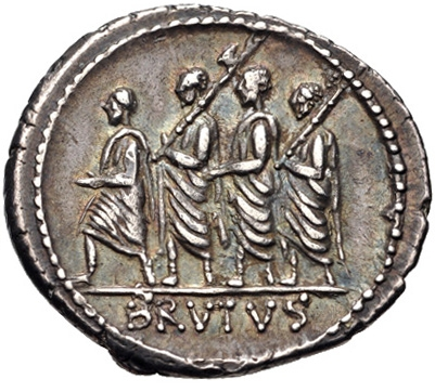 Q. Servilius Caepio (M. Junius) Brutus 54 BC. AR Denarius (20mm, 3.64 g, 6h). Rome mint. Head of Libertas right / The consul L. Junius Brutus walking left between two lictors, each carrying axe over shoulder, and preceded by an accensus. Crawford 433/1; Sydenham 906; Junia 31. Good VF, toned, scrape at top of Libertas’ head, light scratch on her neck.